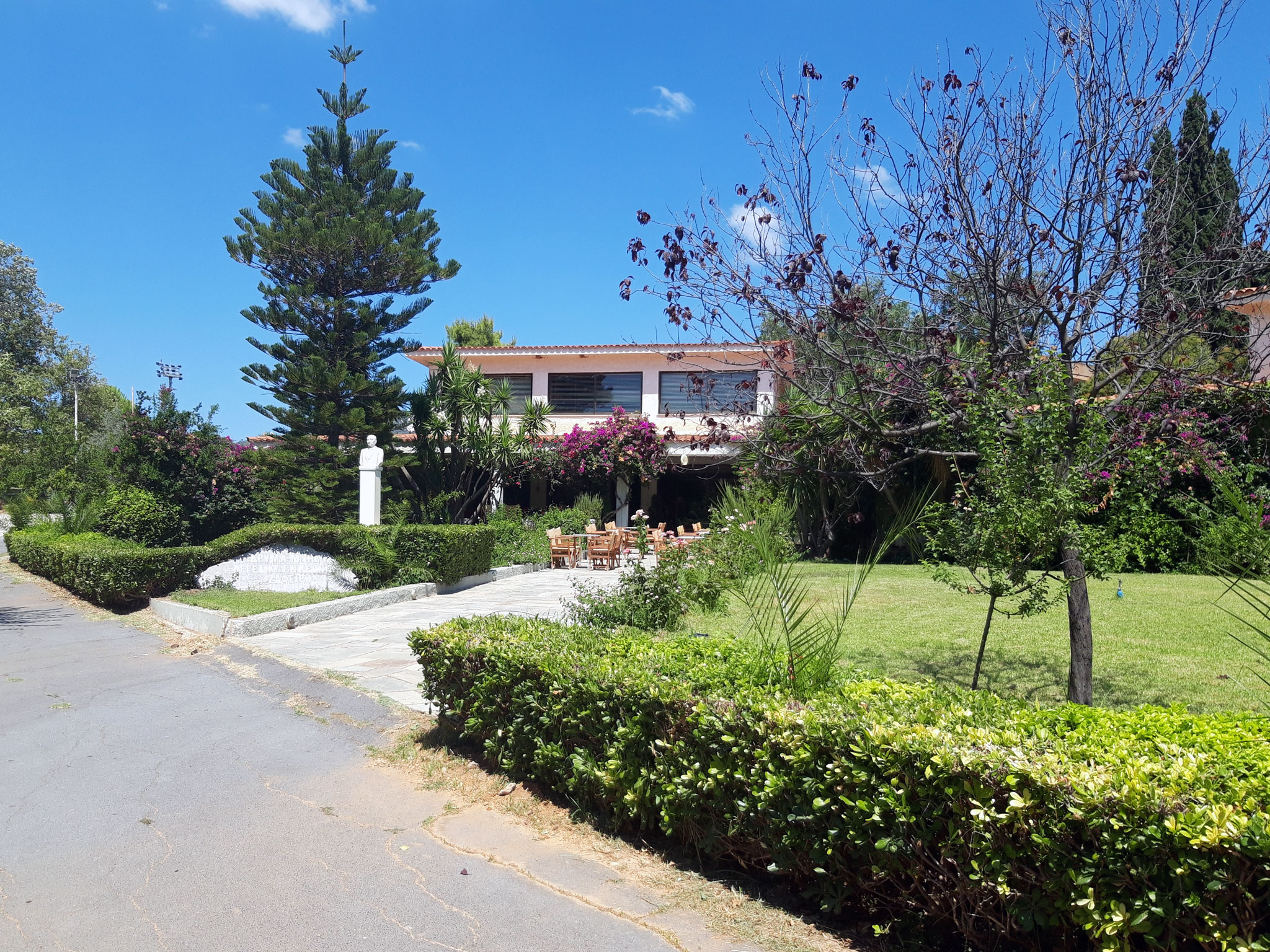 The buidling of the Zafiris foundation in Astros, Greece.